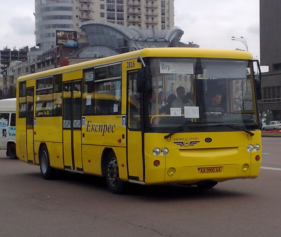 Bogdan-A1445 bus. Victory square, Kiev.